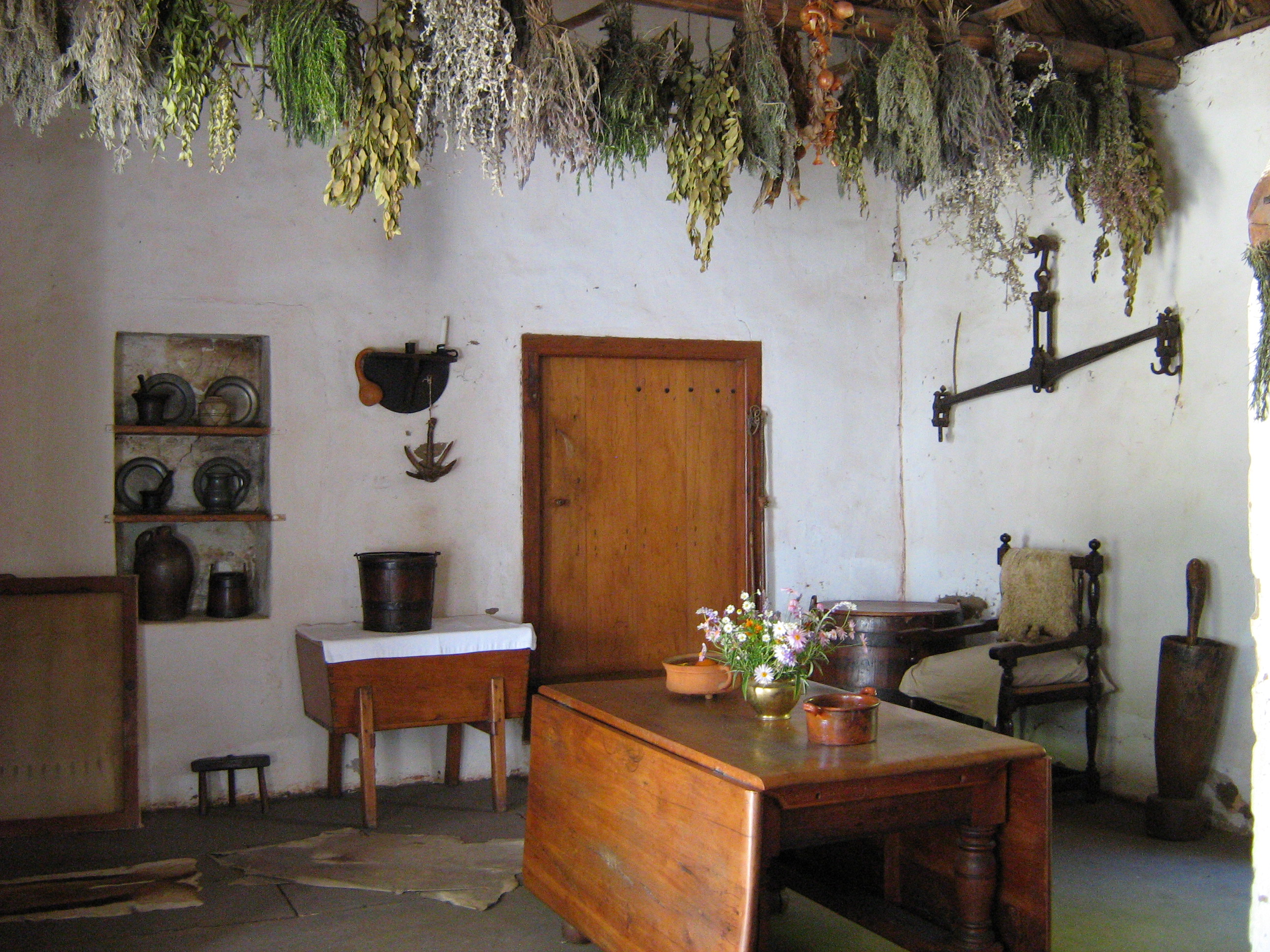 Schreuder House kitchen, Stellenbosch Museum, South Africa This media shows a South African Protected Site with SAHRA file reference 9/2/084/0027.